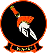 Insignia of the U.S. Navy Strike Fighter Squadron 147 (VFA-147) "Argonauts".